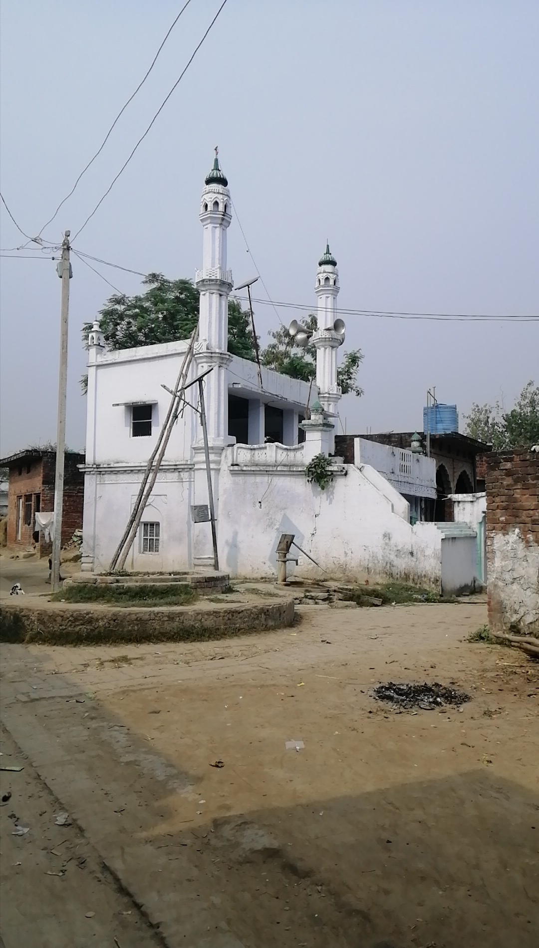 Jama masjid chak located in Chak village Ramgadi panchayat district Bahraich state of Uttar Pradesh India.